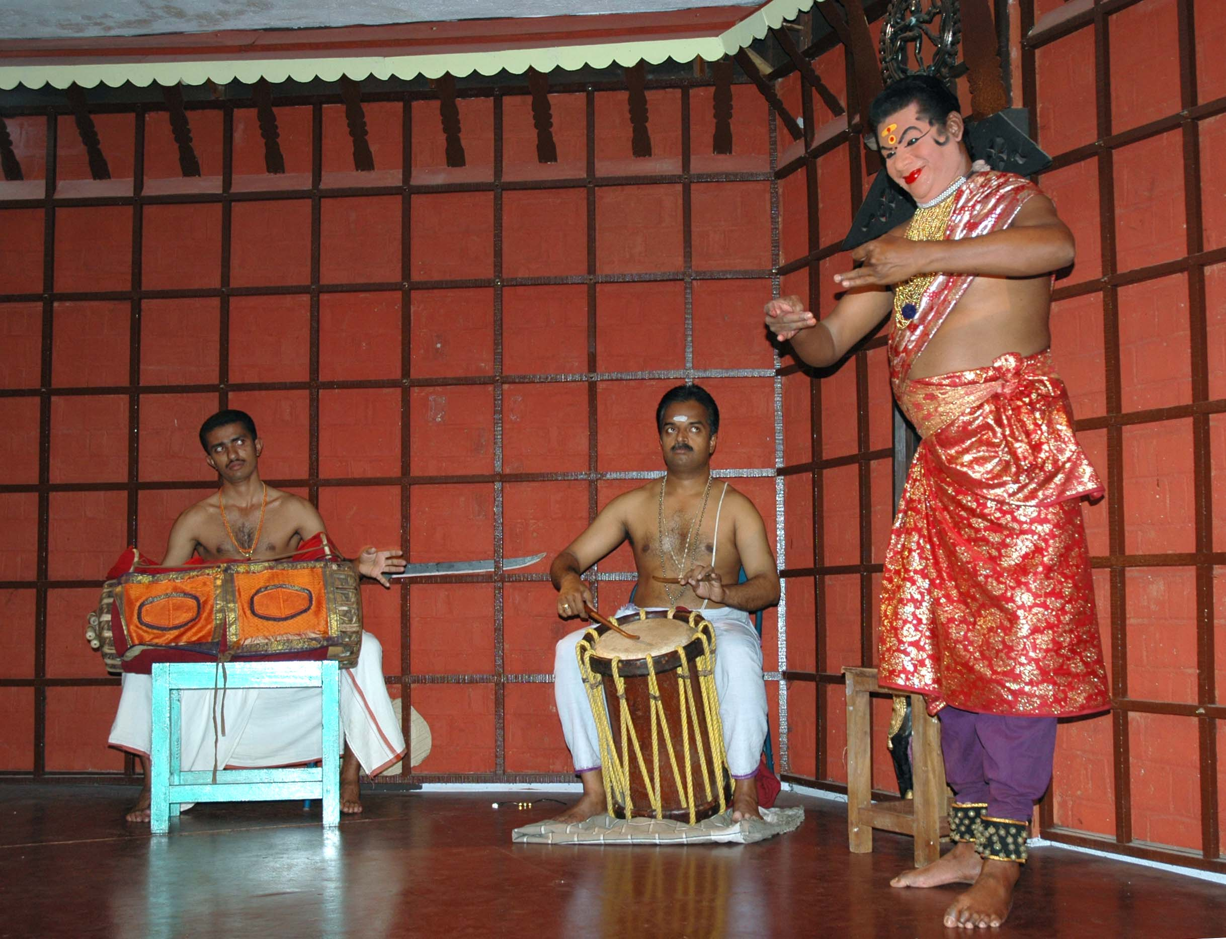 Kathakali dance performance in the theatre at Ernakulam, Kochi/Cochin of Cochin Cultural Centre, (Samgamam, Manikath Road).